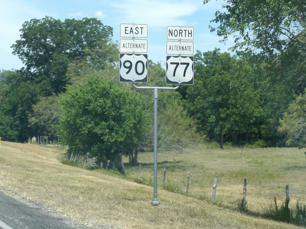 Sign assembly indicating the overlap of U.S. Route 90 Alternate/77 Alternate near Hallettsville, Texas.